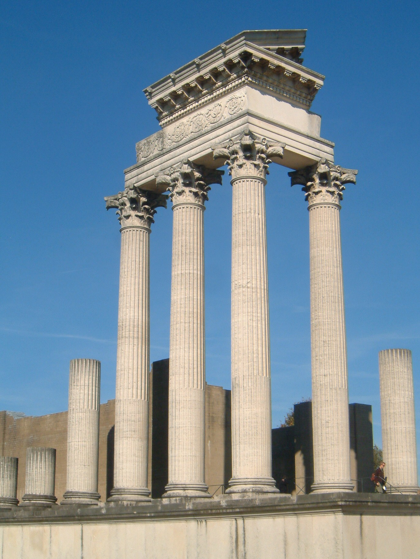 detail of the Hafentempel in Xanten